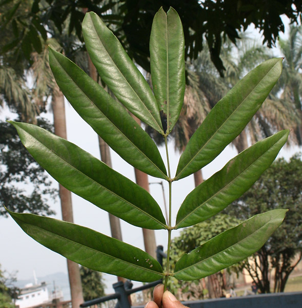 Sita Ashok Saraca asoca in Kolkata, West Bengal, India.